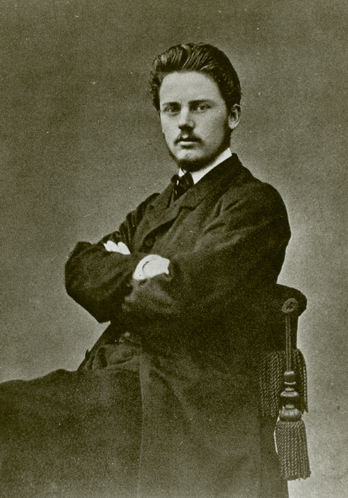 Gustaf de Laval at the age of 30.